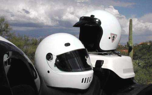 Photo © by Jeff Dean